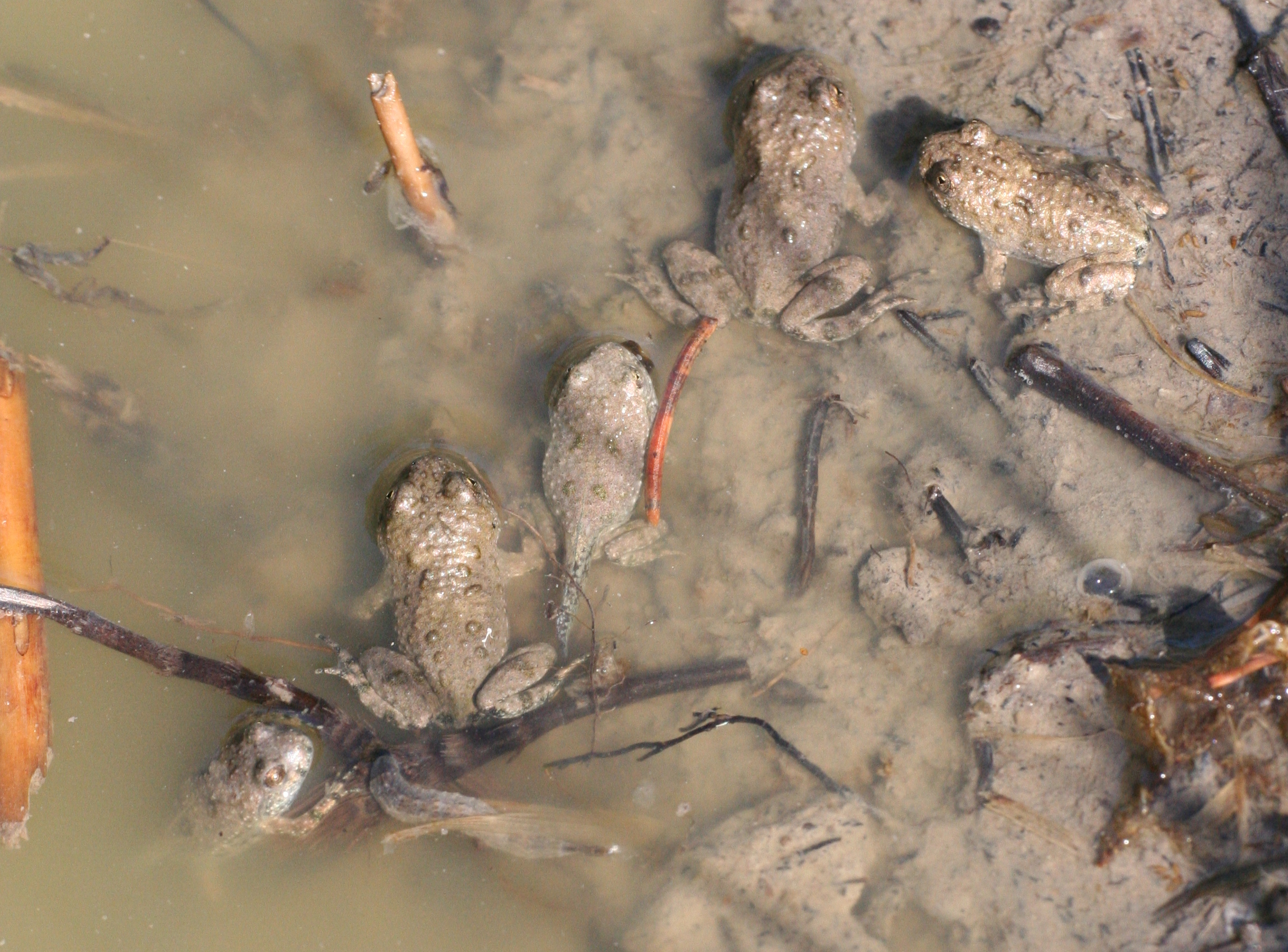 Several young yellow-bellied toads (Bombina variegata), photographed in Weinsberg